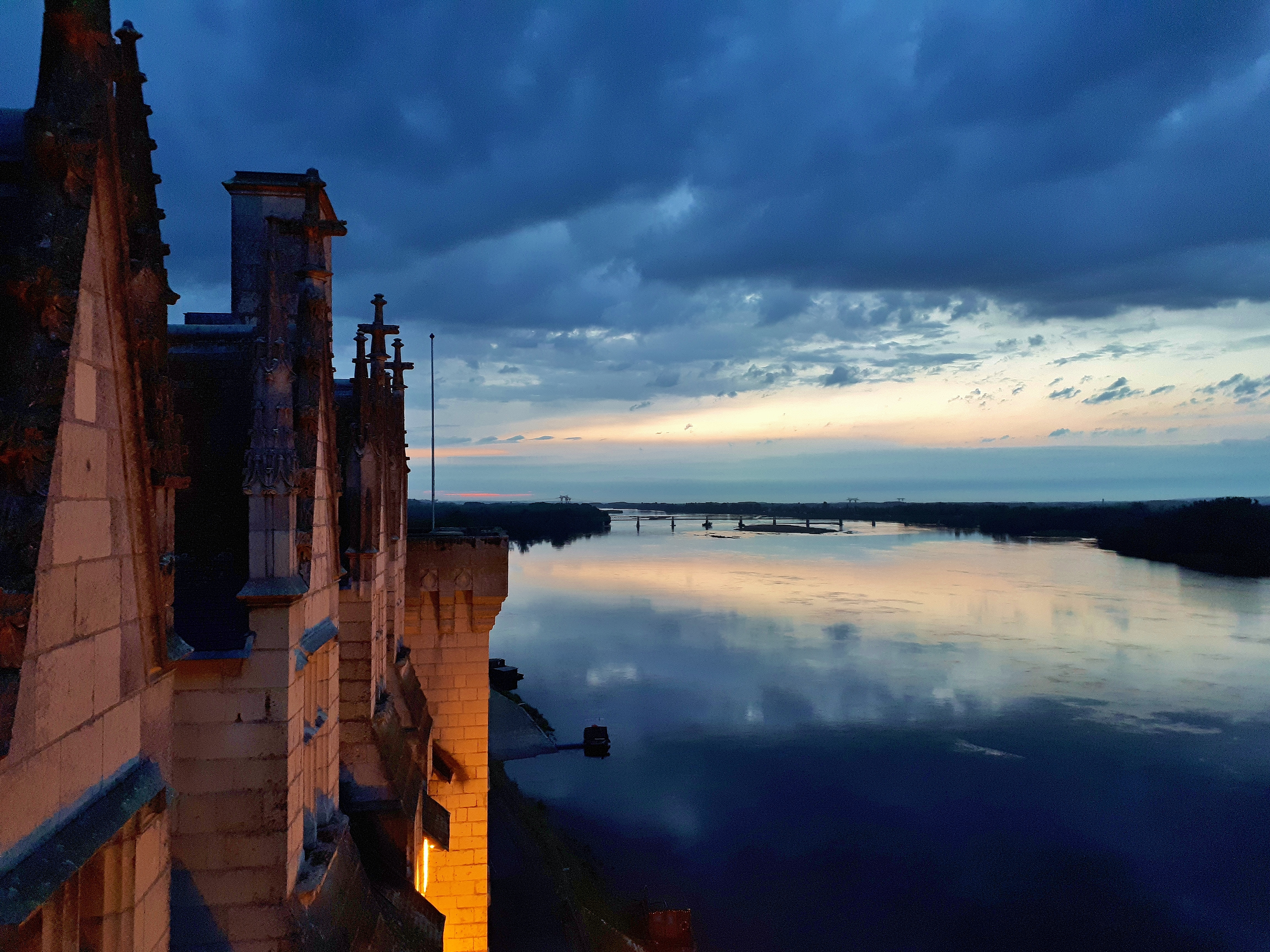 The Loire, view from the Château de Montsoreau-Museum of Contemporary Art in the Loire Valley. Monstoreau is listed one of the most beautiful villages of France, member of the most beautiful villages of the world. This building is en partie classé, en partie inscrit au titre des Monuments Historiques. It is indexed in the Base Mérimée, a database of architectural heritage maintained by the French Ministry of Culture, under the references IA49009670 and PA00109211 .